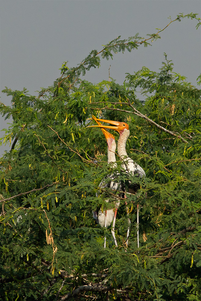 From Sulthanpur Bird sanctuary, Haryana